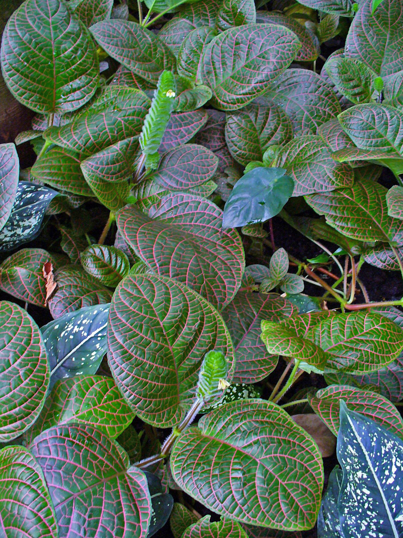 Fittonia albivenis, Acanthaceae, Nerve Plant, Mosaic Plant, habitus; Botanical Garden KIT, Karlsruhe, Germany.